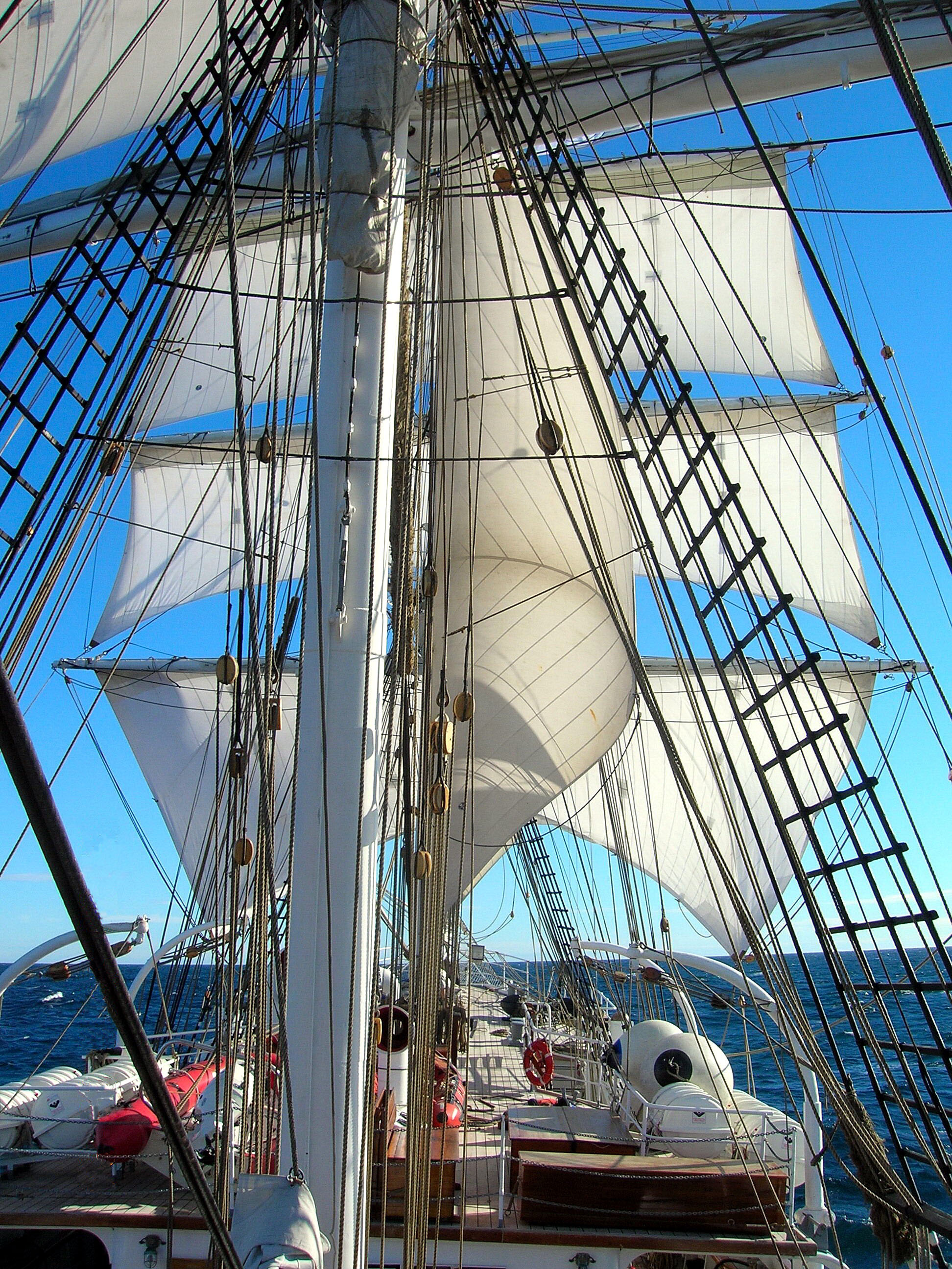 The ship Christian Radich under sail.